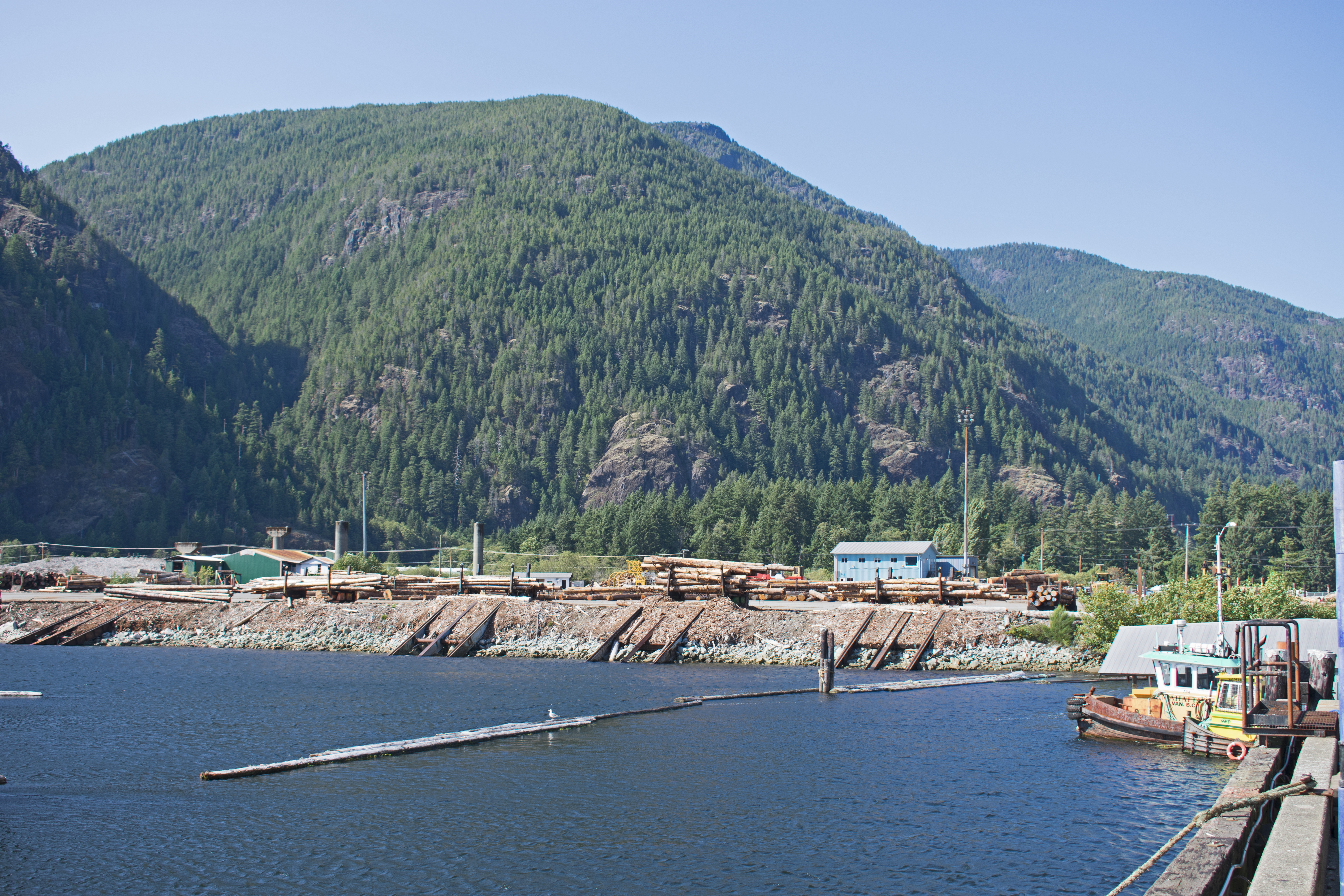 Western Forest Products harbor in Muchalat Inlet